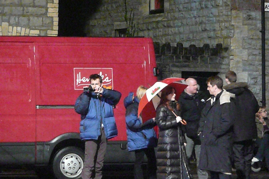 David Tennant, Billie Piper, Catherine Tate, and John Barrowman during a filming break for the Doctor Who episode "The Stolen Earth" in Penarth, Wales on 13 March 2008. Photograph taken at the intersection of High St and Arcot St in Penarth.